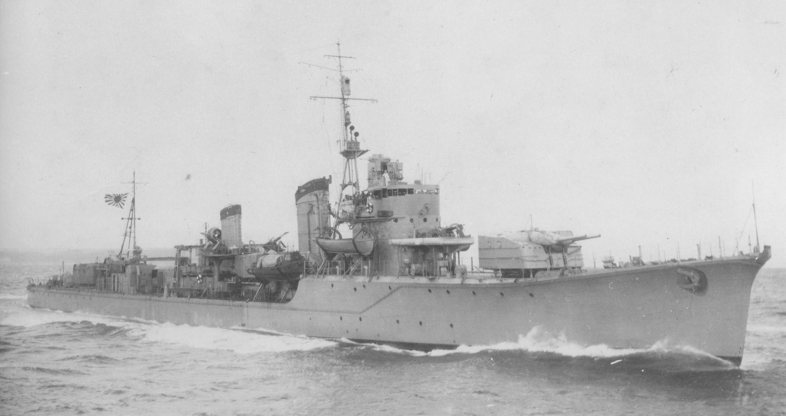 Imperial Japanese Navy destroyer Harusame, the second Japanese warship to bear that name, underway on November 30, 1943.